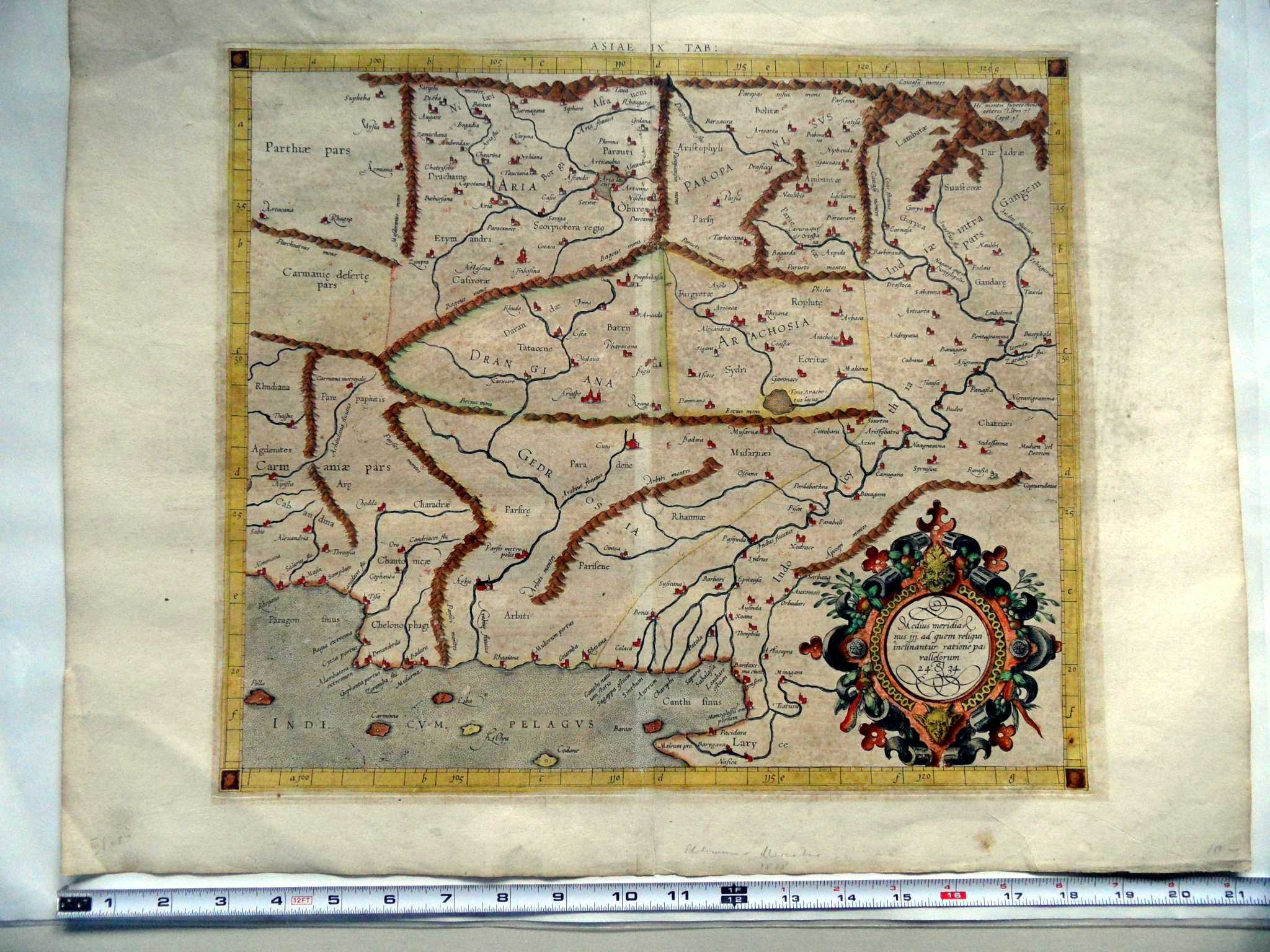 Ptolemy's 9th Asian Map, depicting the lands just west of the Indus River during classical antiquity.